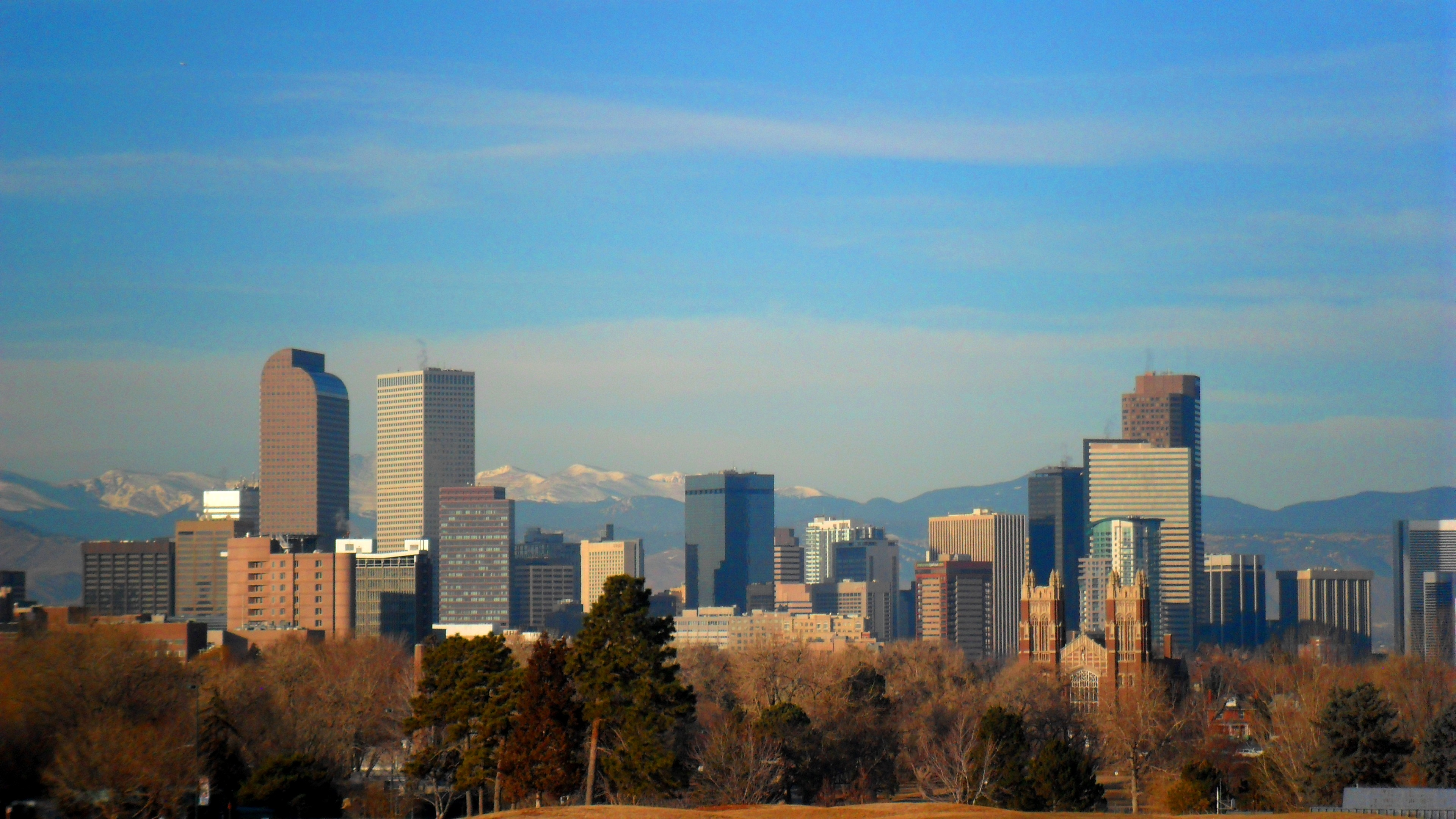 Denver skyline 2011